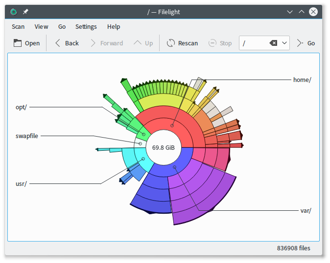 Filelight 15.08.1